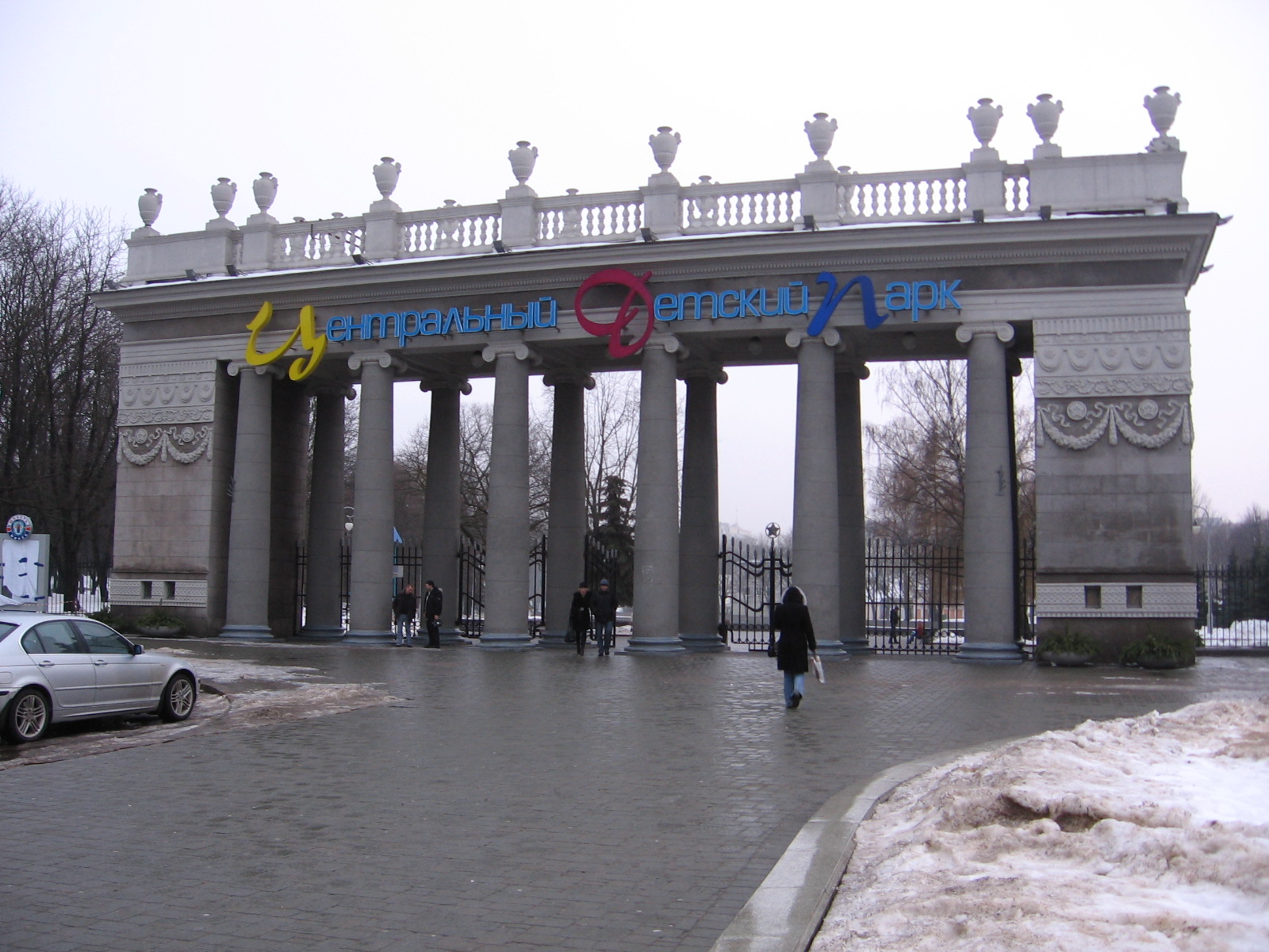 M. Gorky park entrance gates. Words on the facade are: "Central Children's Park". The park was established in 1800, named after Gorky in 1936. It was turned over to children's entertainment and experienced the major reconstruction and development in 1960.